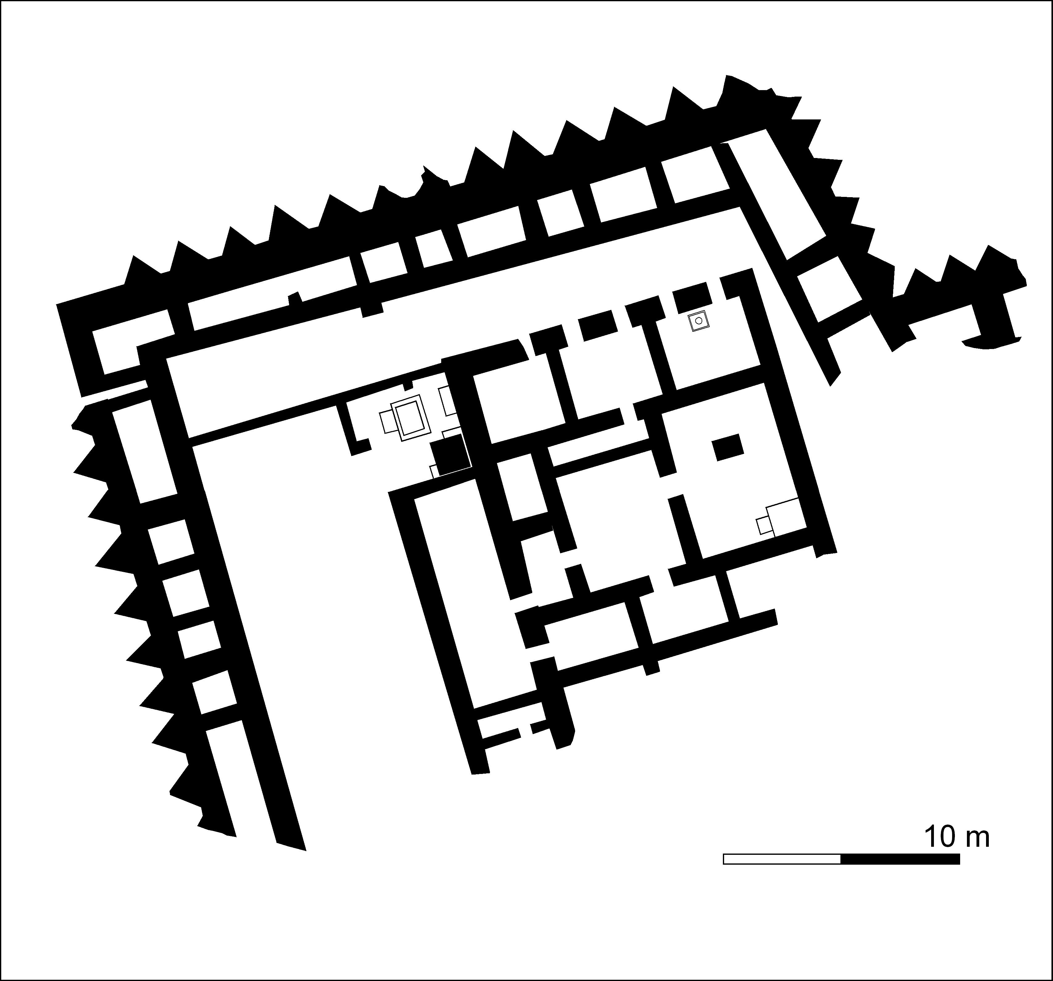 Plan of temple at Mundigak, redrawn from Jean Marie Casal: Fouilles de Mundigak, Paris 1961, fig. 36